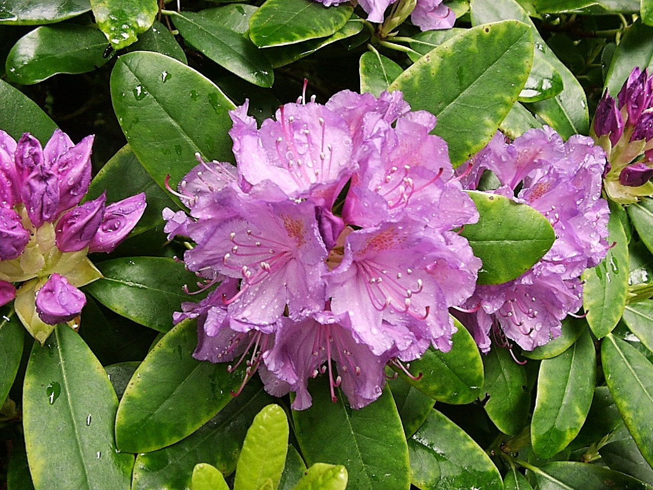 Rhododendron bloom in zoo Tierpark Friedrichsfelde in Berlin, Germany. May 2005. Public Domain.